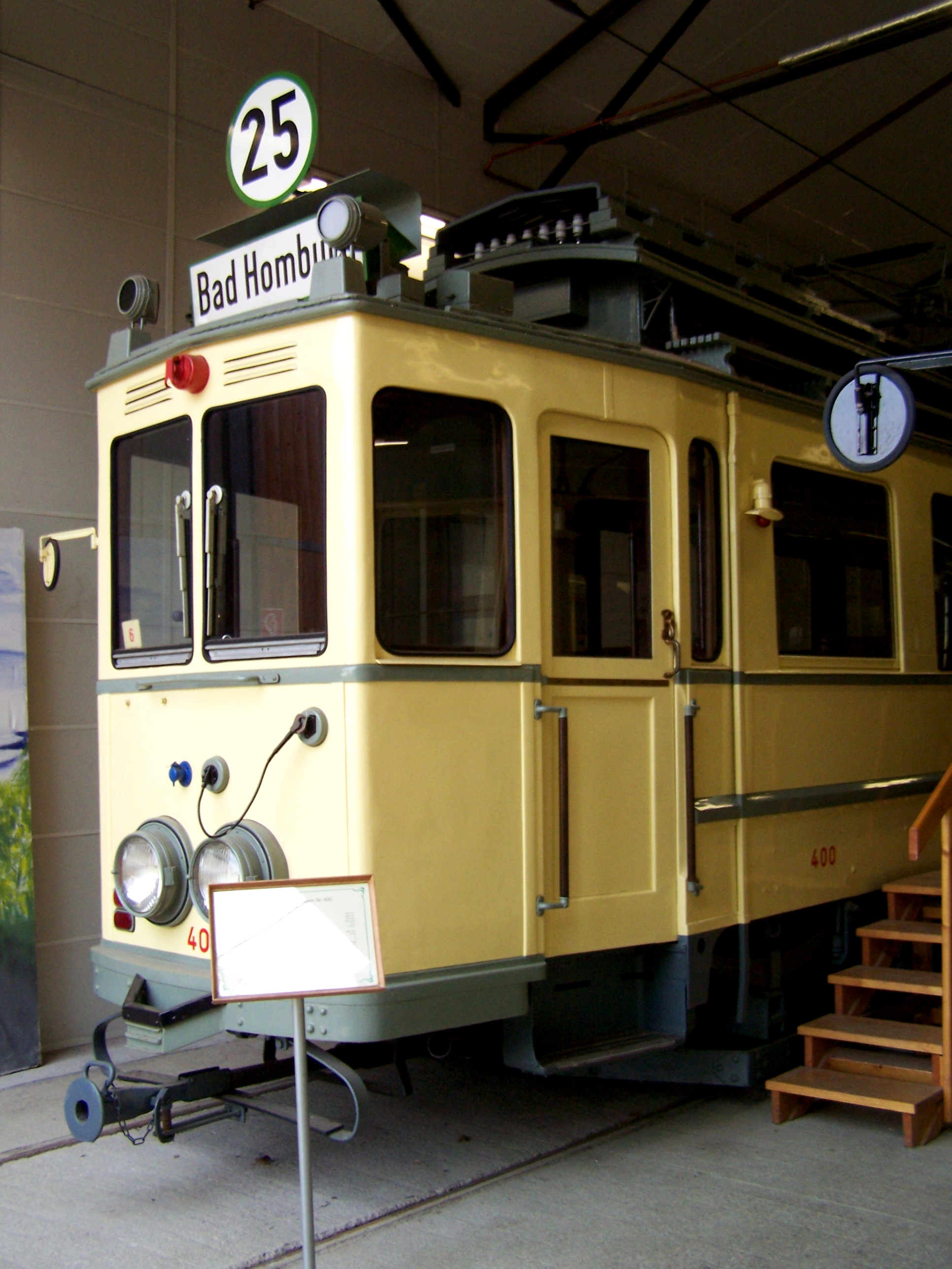 tram type V No 400 in the Frankfurt on Main Transport Museum in Frankfurt am Main--Schwanheim